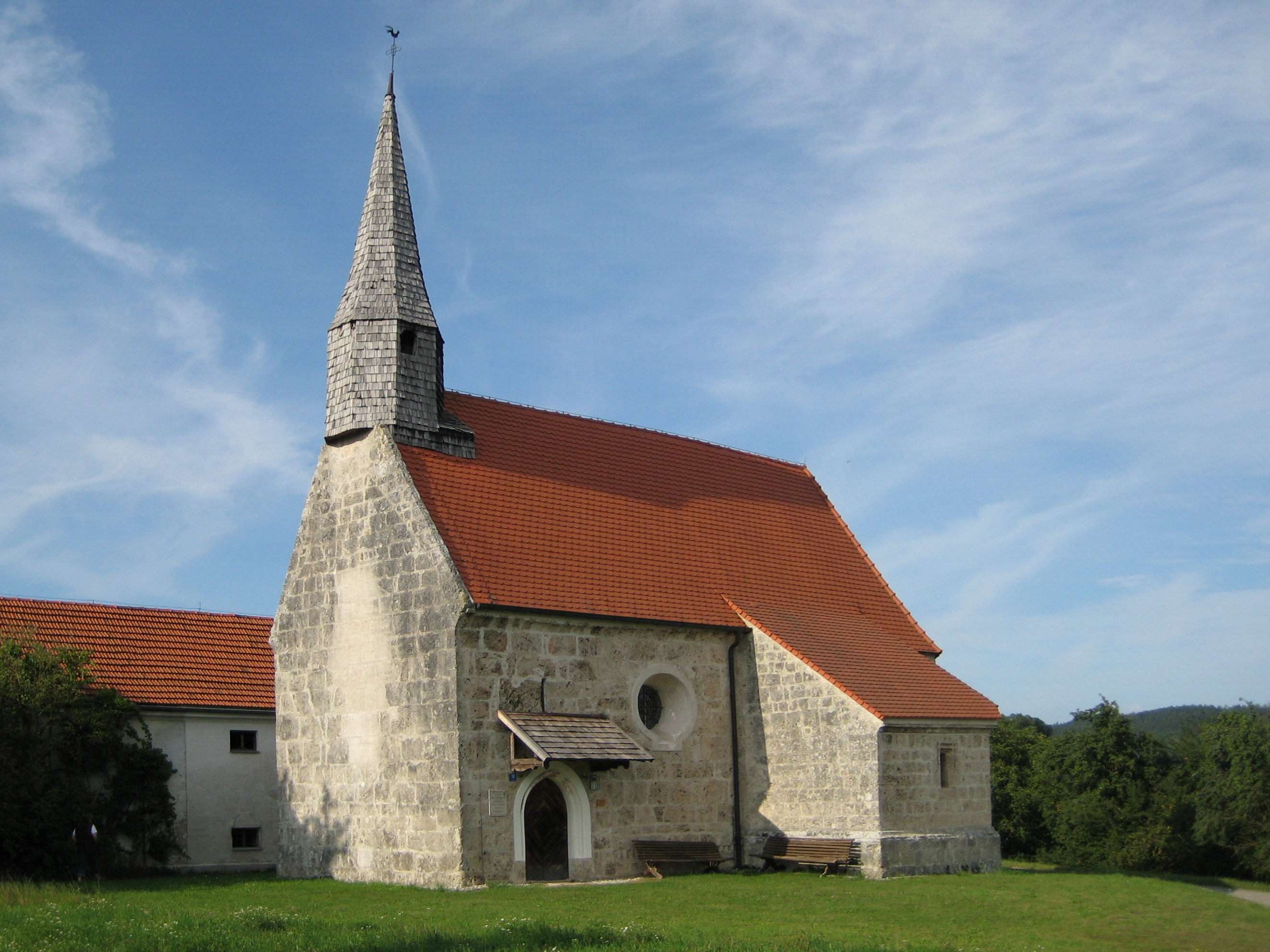 Church at the birthplace of Pope Damasus II in Pildenau near Ering